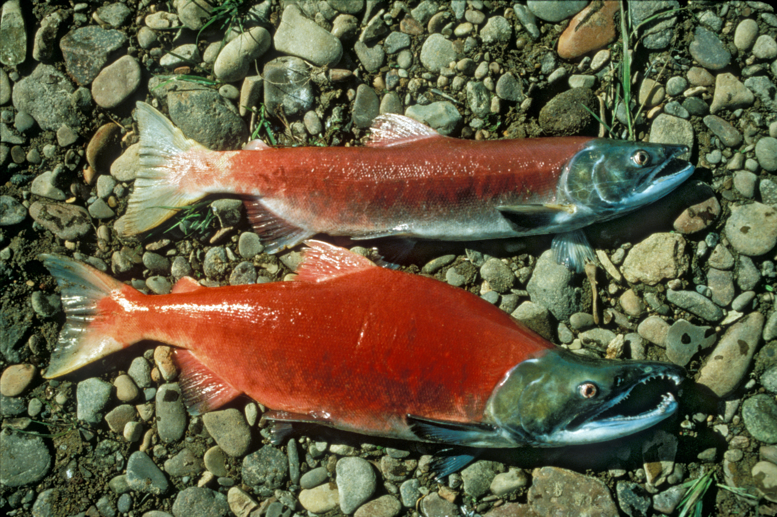 Male (bottom) and female (top) Sockeye salmon (Oncorhynchus nerka) specimens.